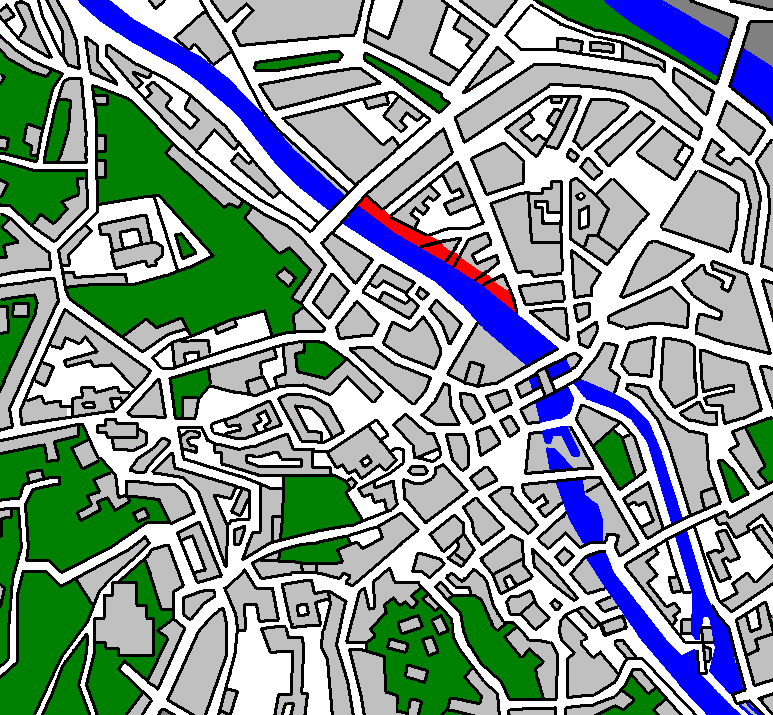 locator map in the German town of Bamberg